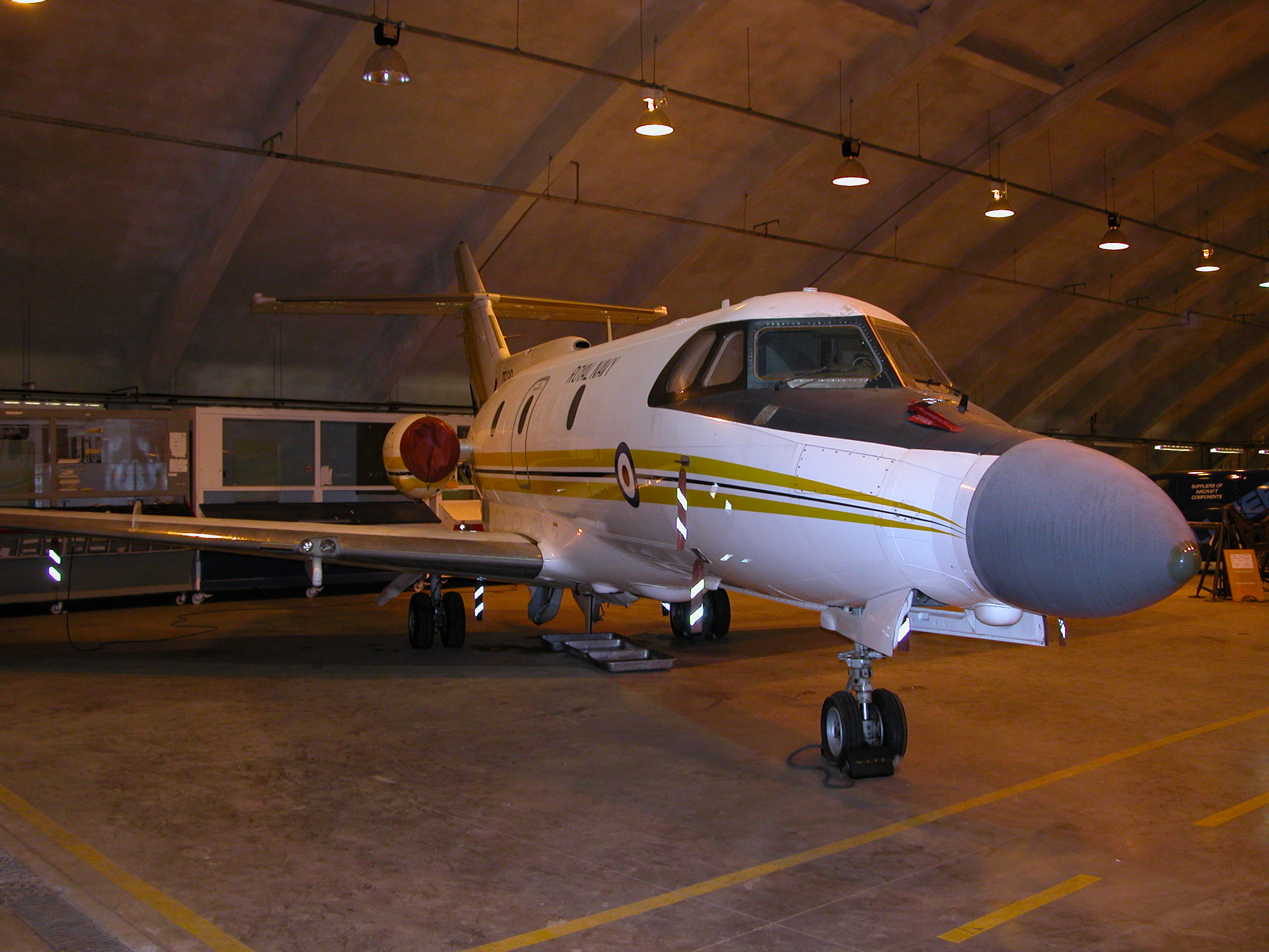 The second of two Blue Vixen trails aircraft at RAF St Athan.